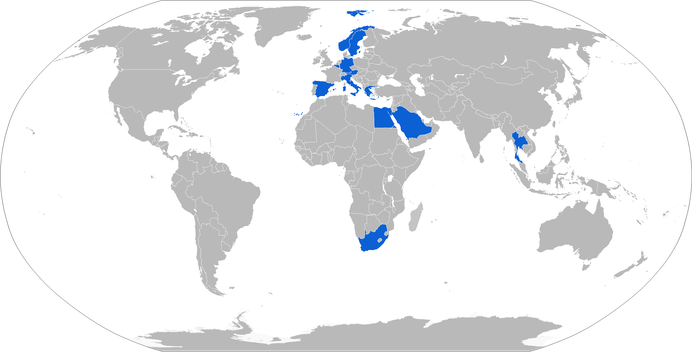 Map with IRIS-T operators in blue